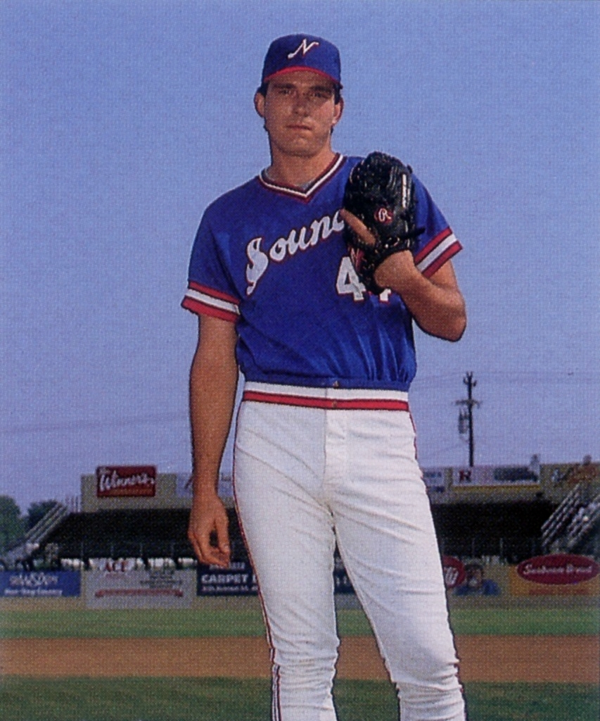 Pitcher Brian Denman of the 1986 Nashville Sounds Minor League Baseball team of the American Association